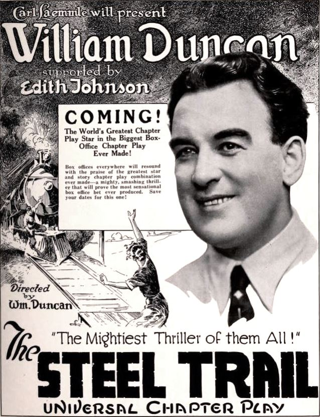 Advertisement for the American film serial The Steel Trail (1923) with William Duncan, on page 41 of the July 21, 1923 Universal Weekly.